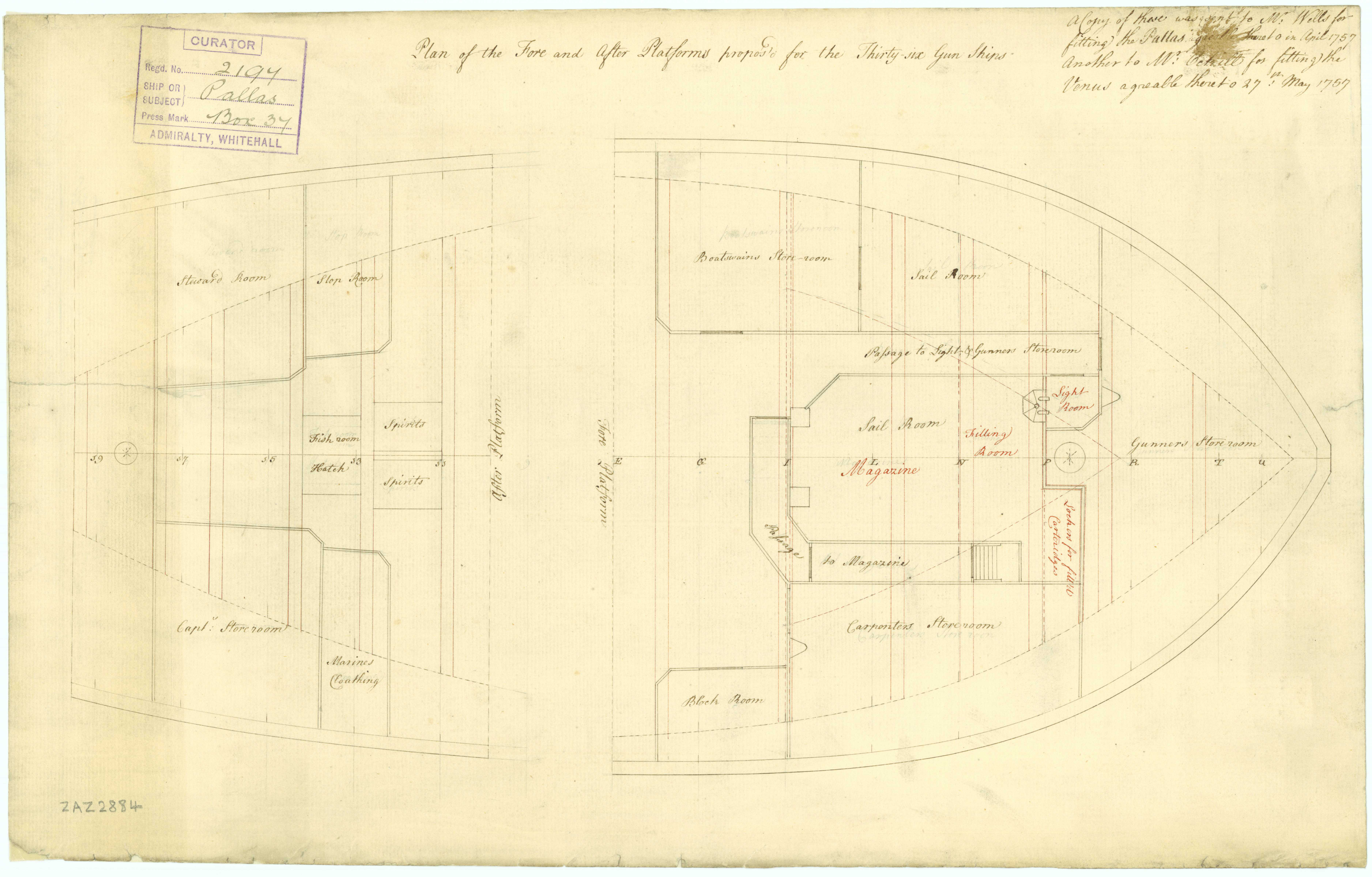 PALLAS 1757 platform